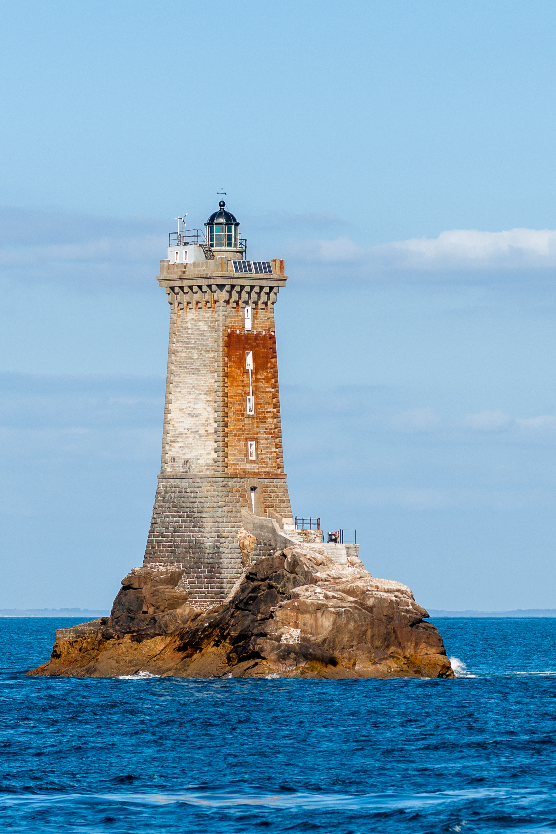 Lighthouse 'Phare de la Vieille', Finisterre/Brittany, France